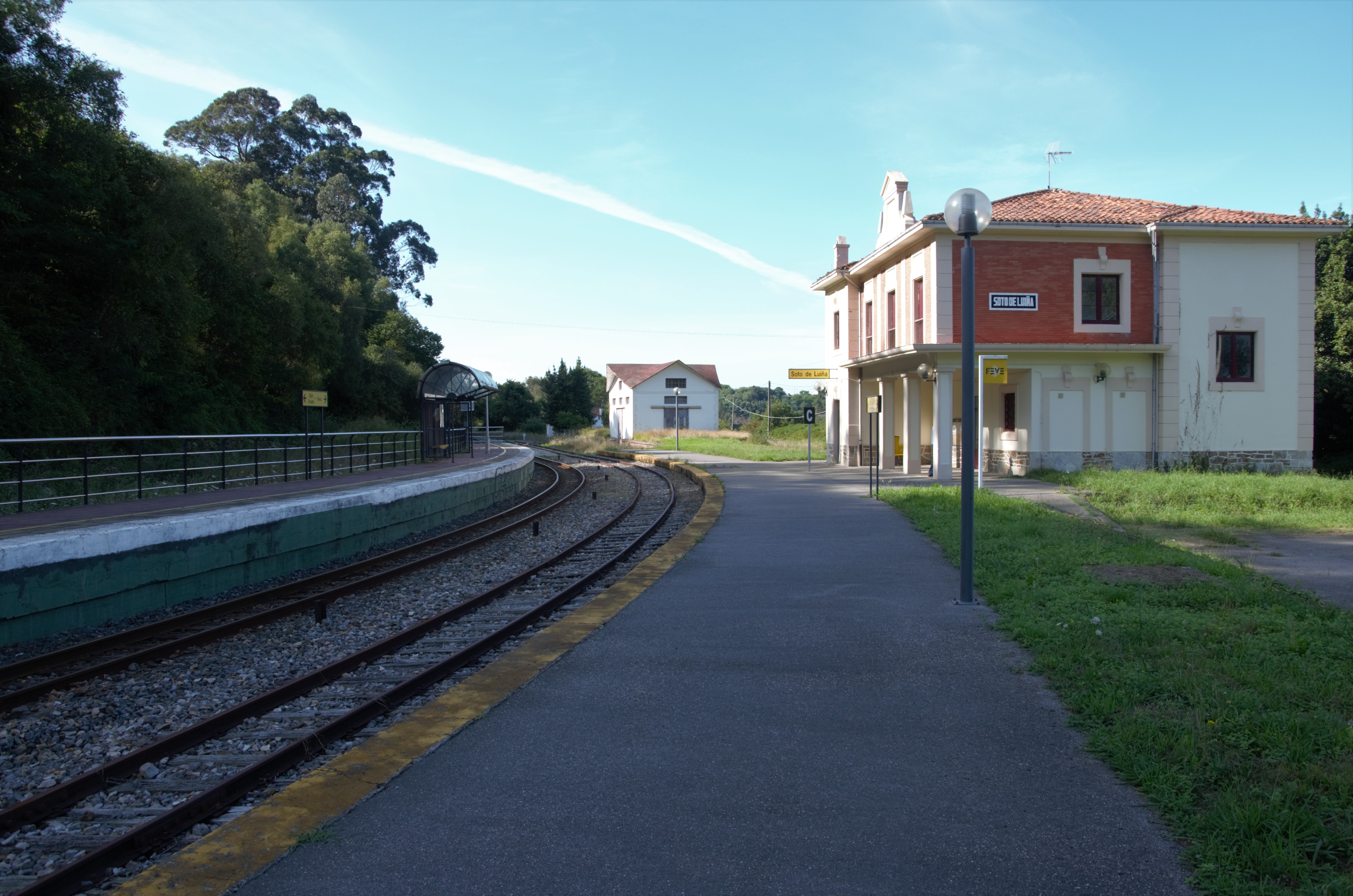 Soto de Luiña (Cudillero, Spain) train station on the narrow gauge Ferrol-Gijón railway line.